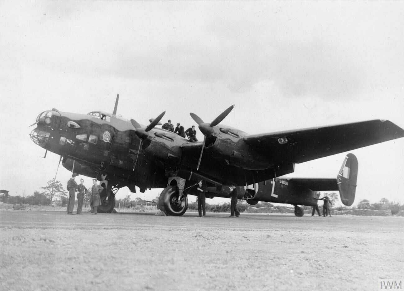 Royal Air Force Bomber Command, 1939-1941. Handley Page Halifax Mark I Series 1, L9530 ‘MP-L’, of No 76 Squadron RAF undergoing maintenance at Middleton St George, County Durham. L9530 was shot down while attacking Magdeburg on 15 August 1941.